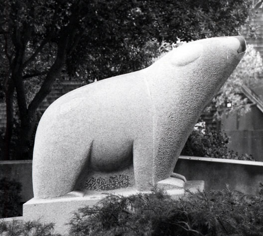 Bear by Benjamin Bufano. ca. 1930s, San Francisco.